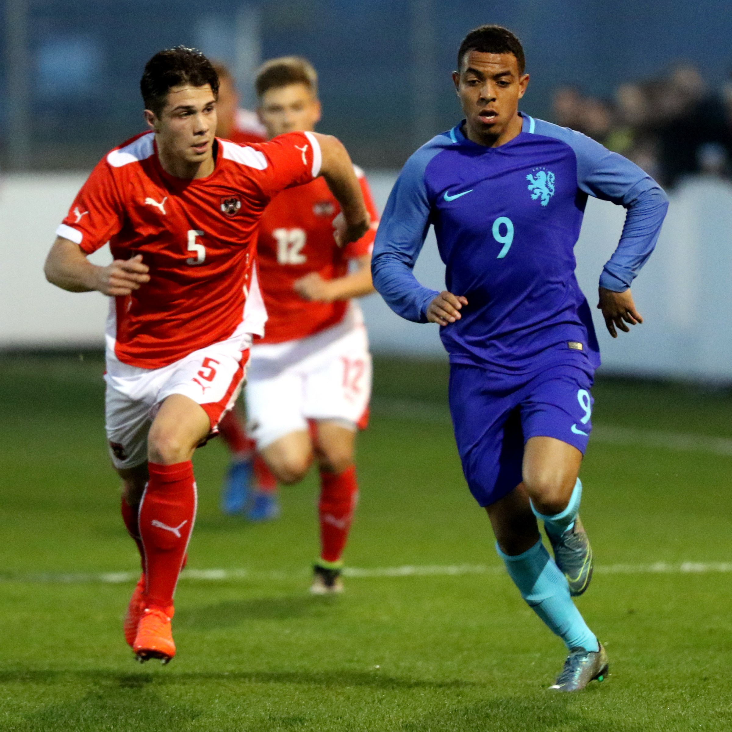 Friendly match Austria national under-18 football team (red shirts) vs. Netherlands national under-18 football team (blue shirts) 1–1 (1–0) on 2017-03-23 in Eggendorf – The photo shows Donyell Malen (FC Arsenal U18, right) and Luca Meisl (FC Red Bull Salzburg, left).